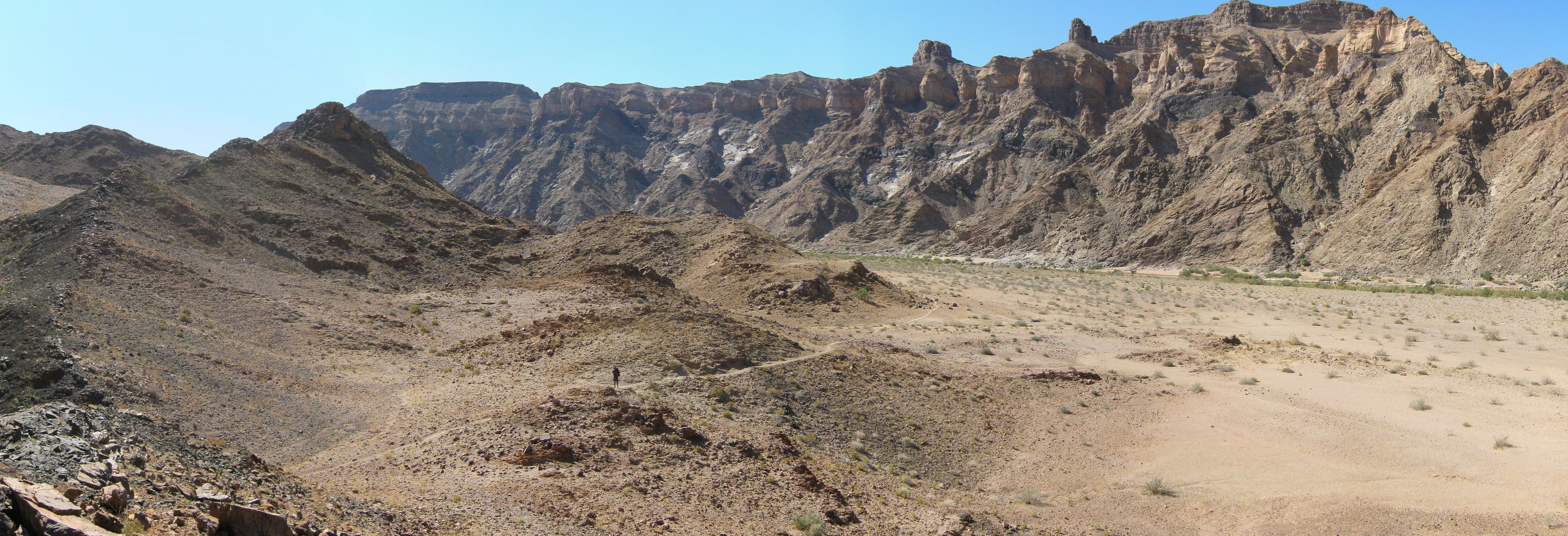 Just after Vasbyt Bend